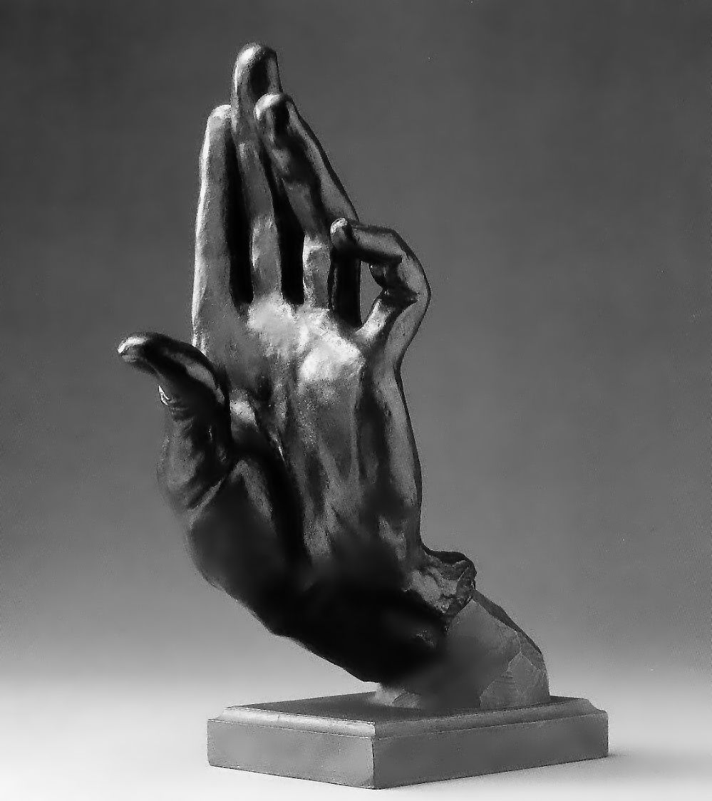 Takamura Kotaro; Hand, 1918. Bronze, 30x29x15 cm